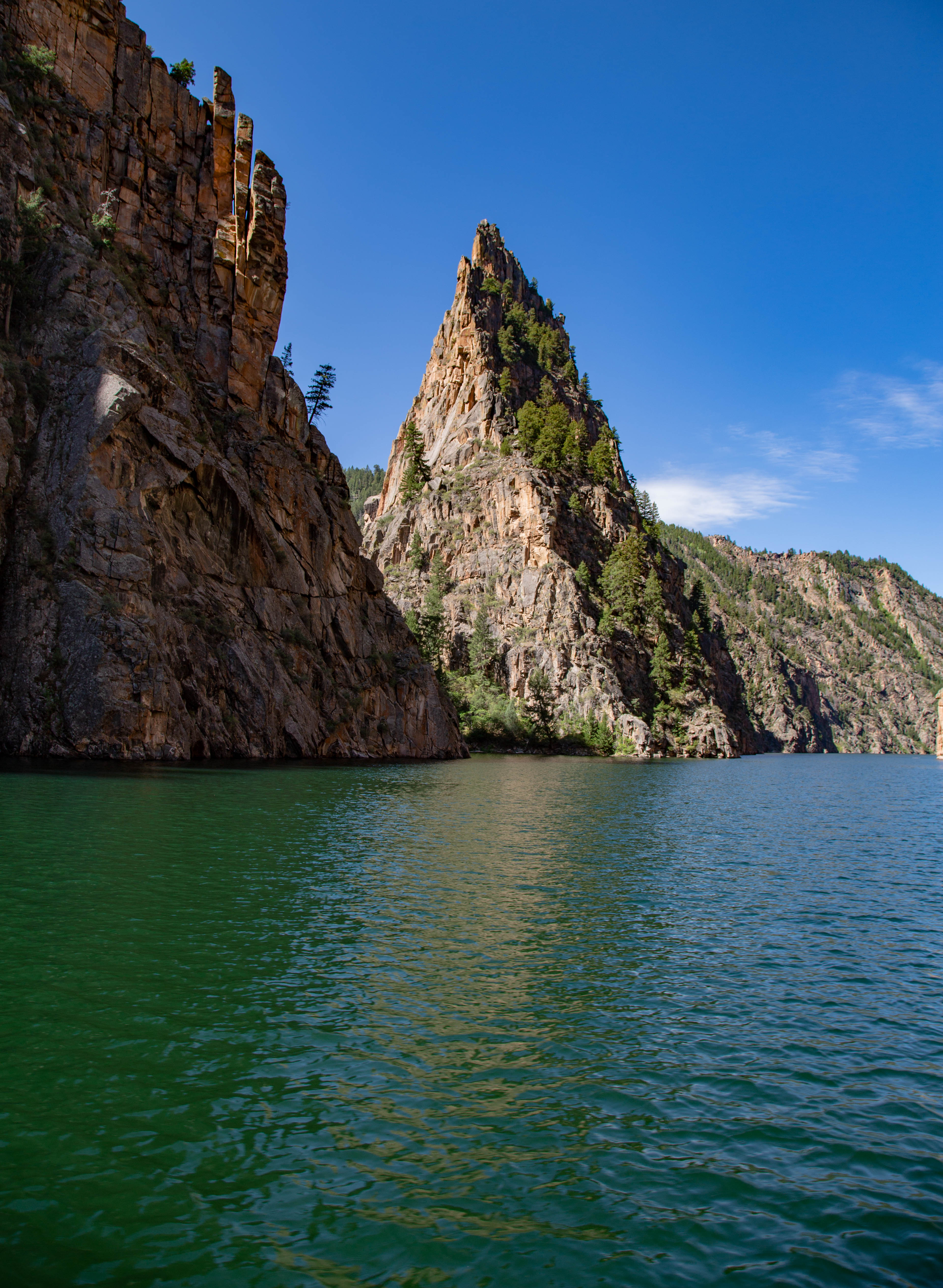 Canyon formation known as "Curecanti Needle" Morrow Point Boat Tour, Curecanti Needle Keywords: Curecanti National Recreation Area; CURE; Curecanti; Black Canyon of the Gunnison; Gunnison River; Colorado; Morrow Point Boat Tours; boat tour